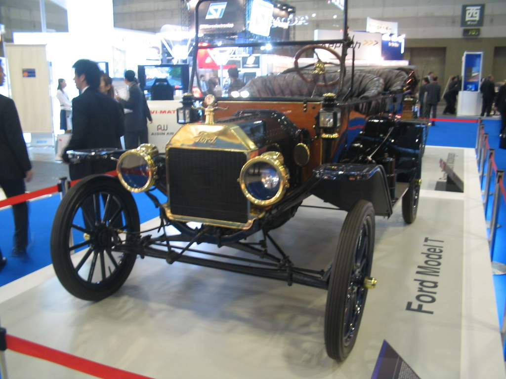 Ford T, picture 2004